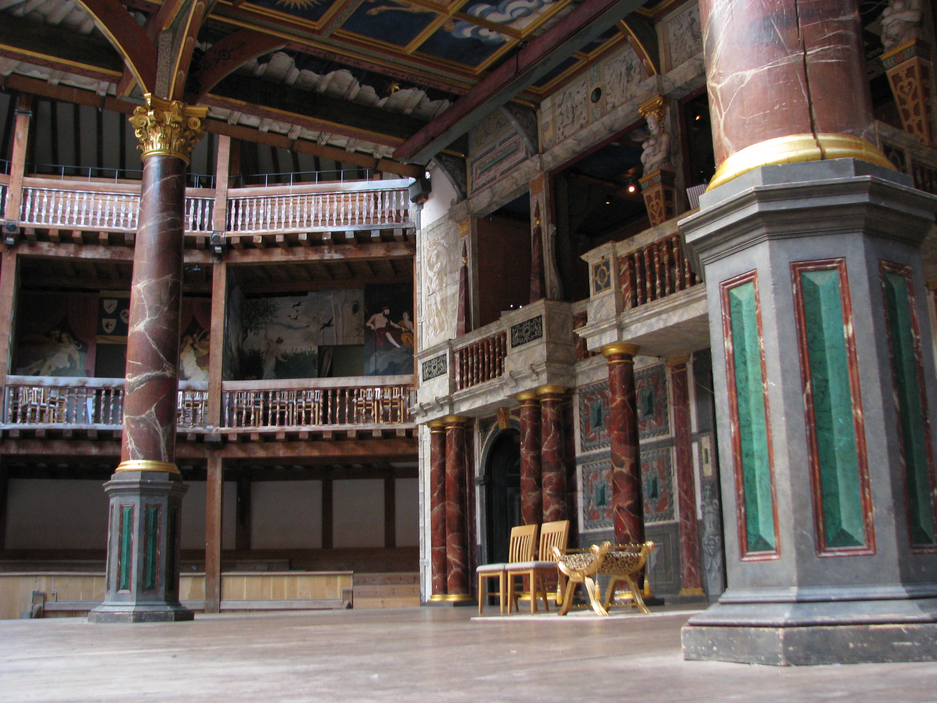 The view from the standing section of the Globe Theatre. In this original design, the audience could watch from as close as this, like a rock concert of today. The columns were painted to look like marble, but are in fact oak wood